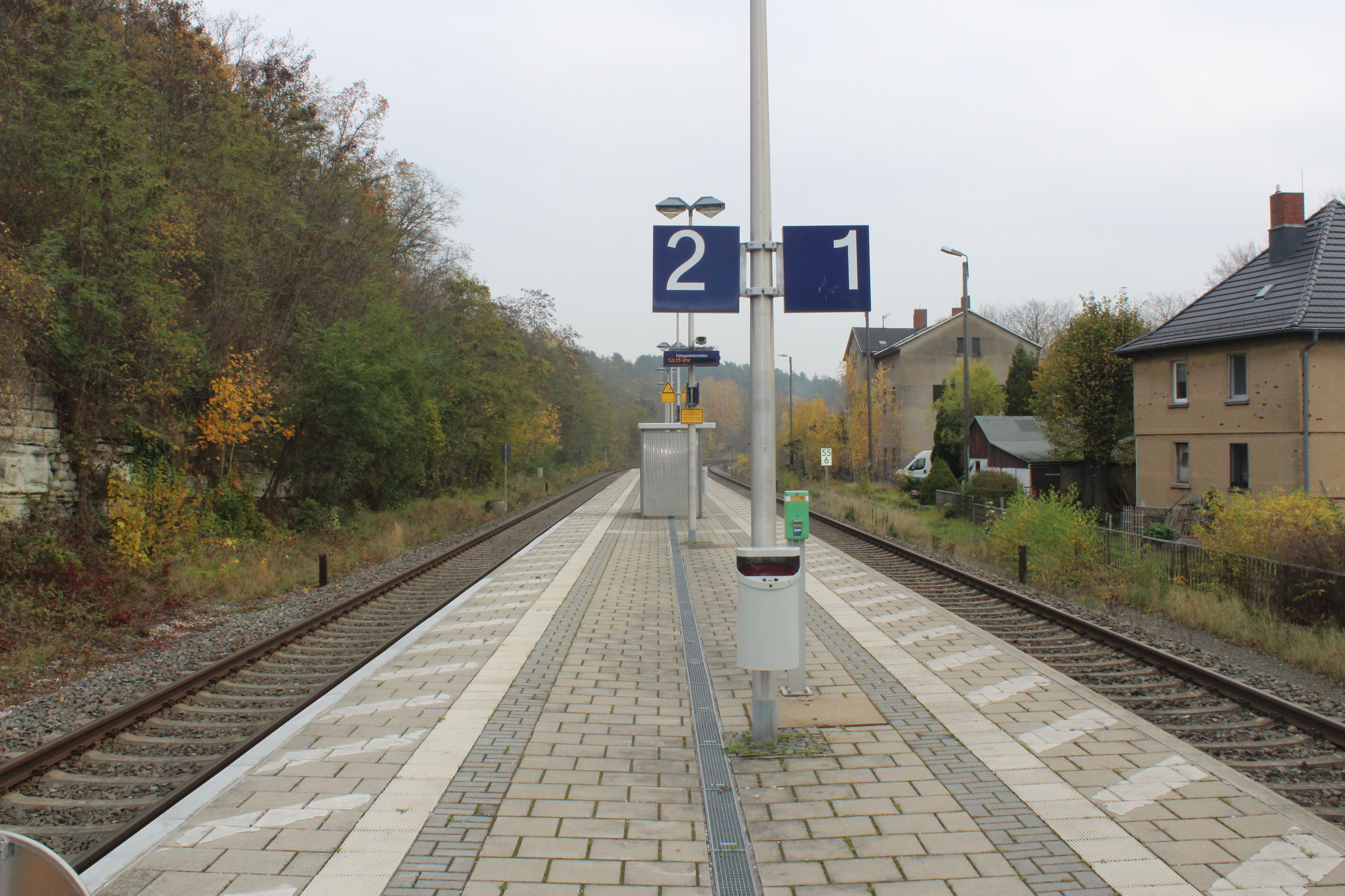 train station Kraftsdorf, platforms